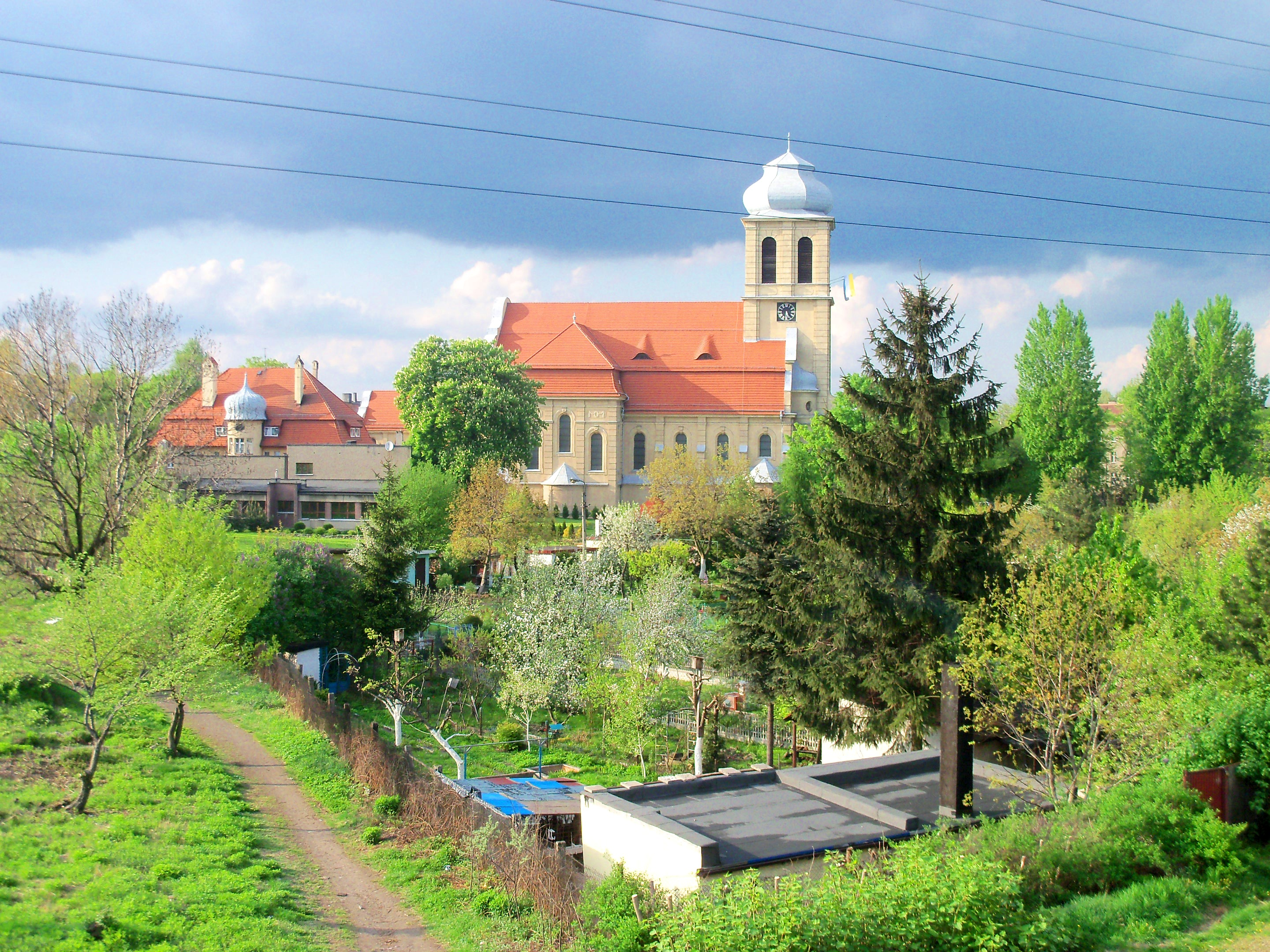 Church in Katowice-Dąbrówka Mała